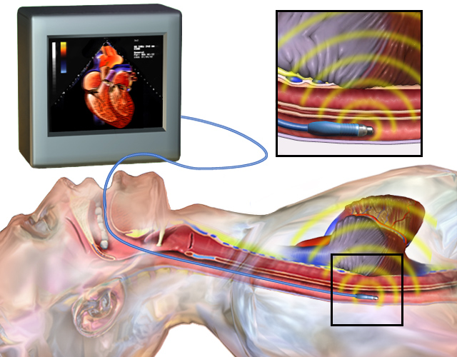 An illustration depicting a transesophageal echocardiogram.